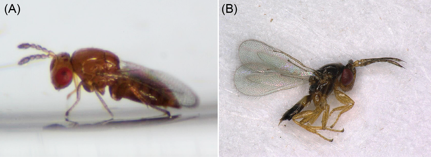 Figure 4 of paper. (A) Profile view of Aprostocetus causalis female; (B) profile view of Aprostocetus causalis male.